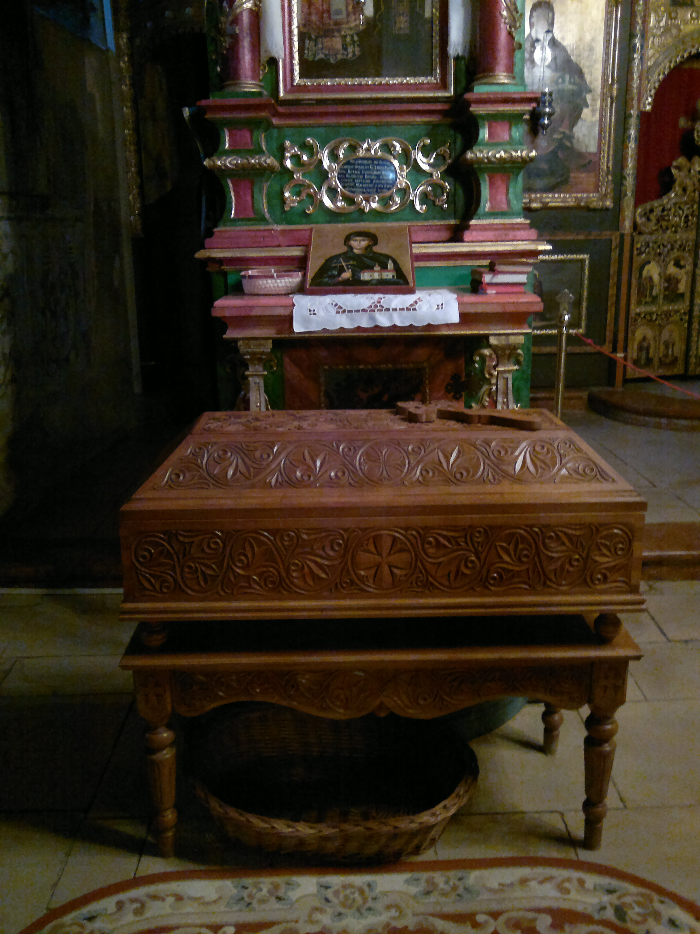 Relic case with the sacred bones of St. Angelina of Serbia in Krusedol monastery